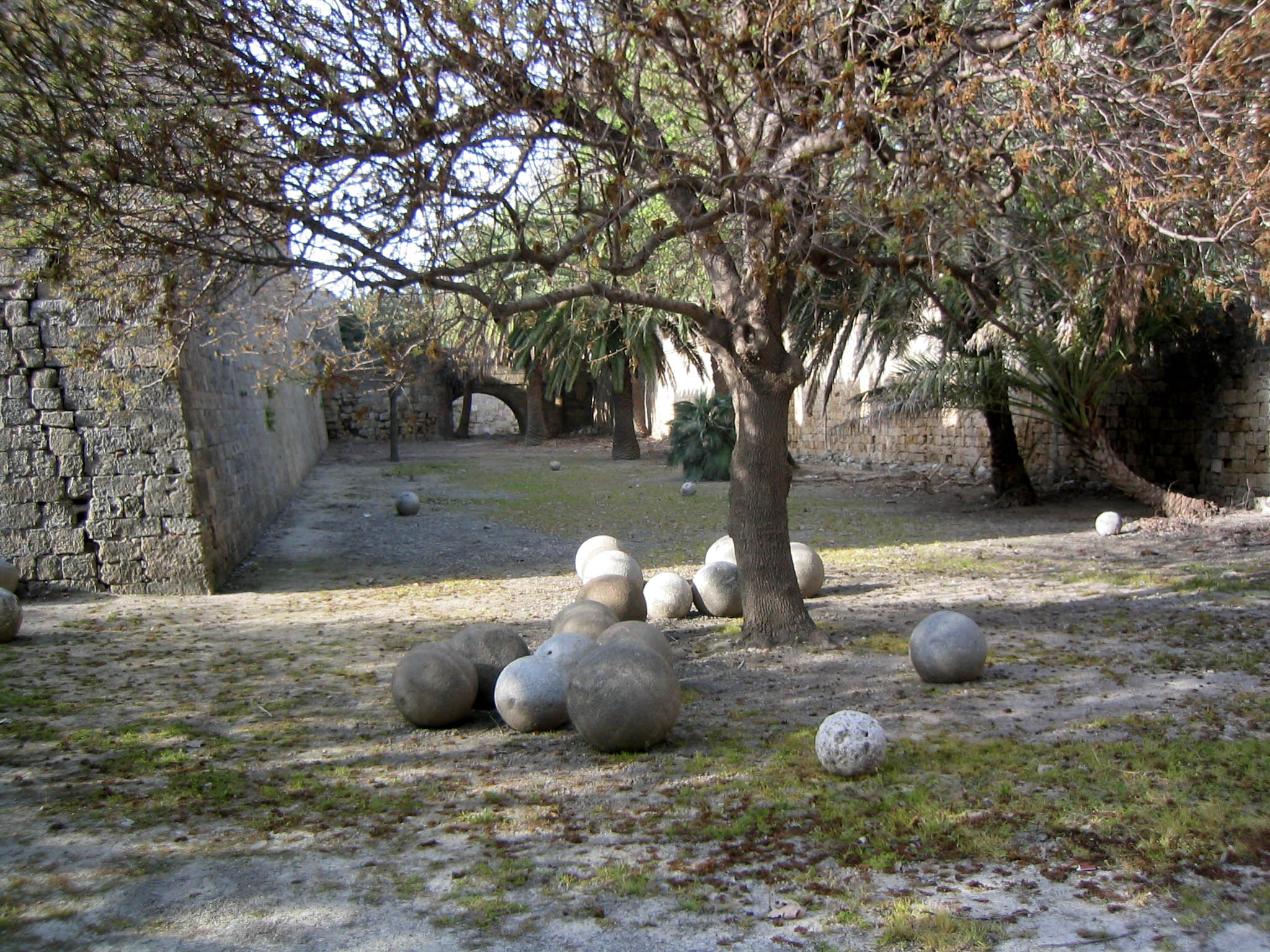 Kanon balls on Rhodes